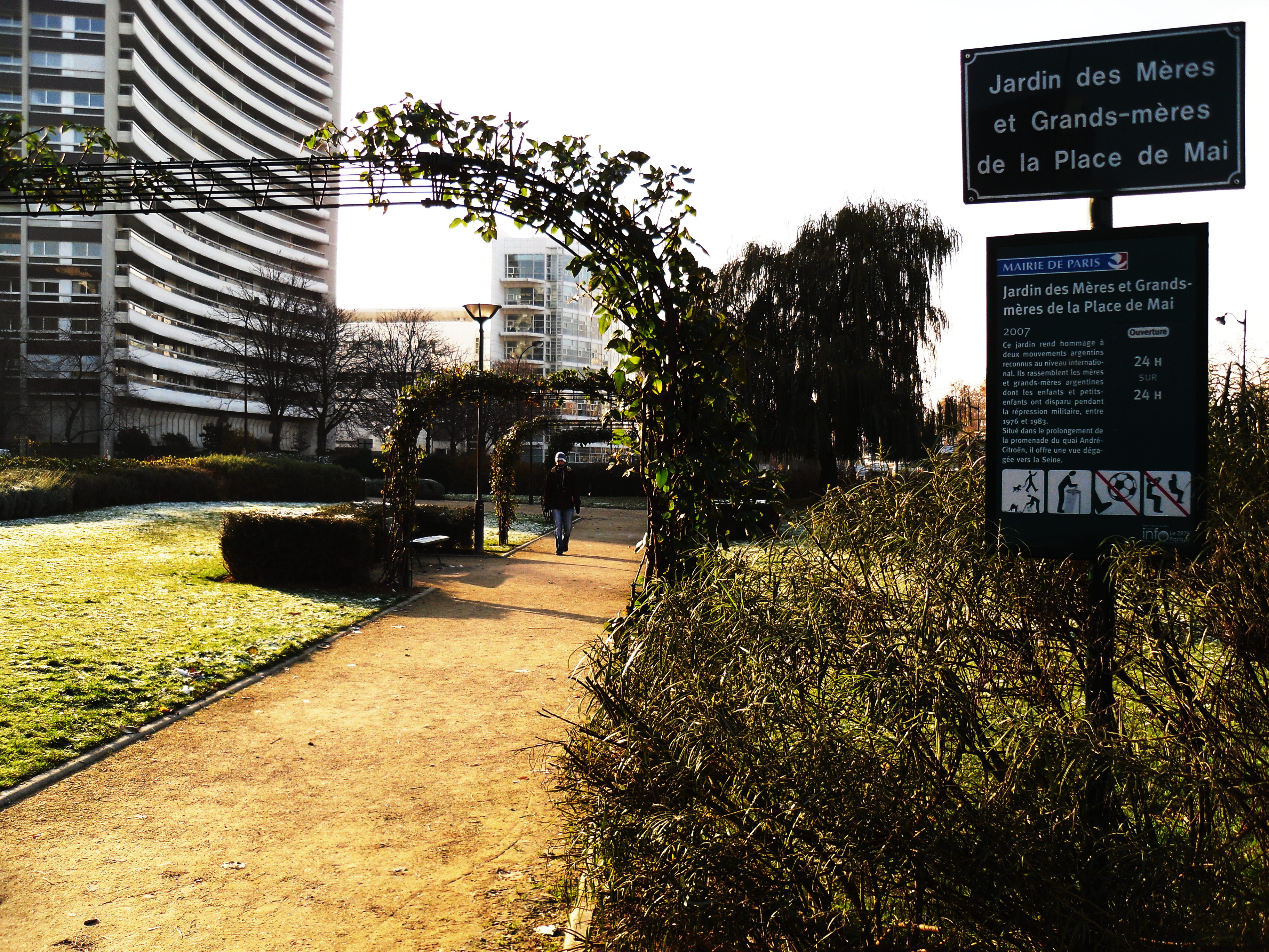 Mothers and Grandmothers of the May Square's Garden at Paris